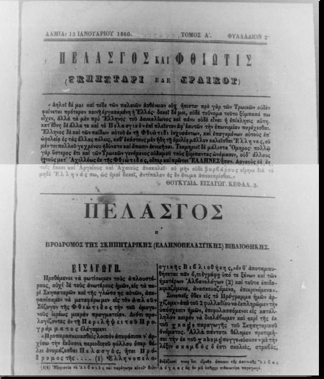 Front page of the Greek newspaper "Pelasgos and Phthiotis", 1860, vol.1, leaf 2. Published in Lamia (Greece) by Anastasios Pykaios, a bilingual (Greek - Albanian) minor author from Epirus. In this page, up: Thucydides, History A, 3. Low:Editorial introduction.